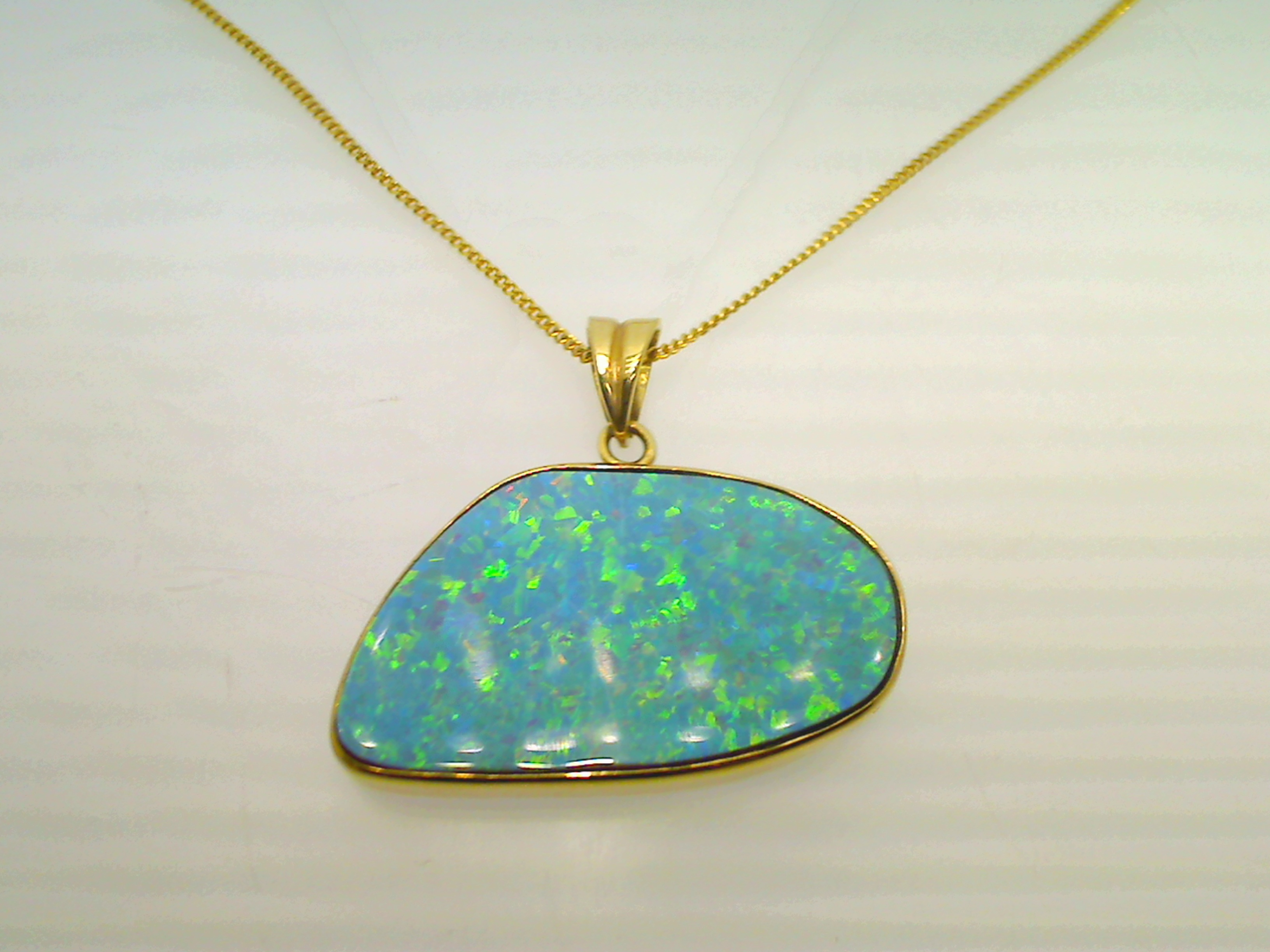 Opal doublet